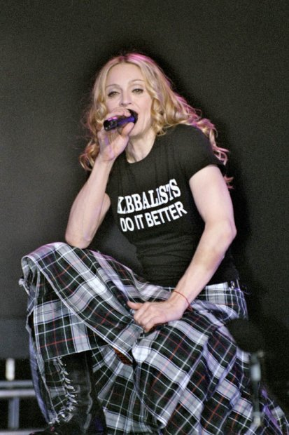 concert